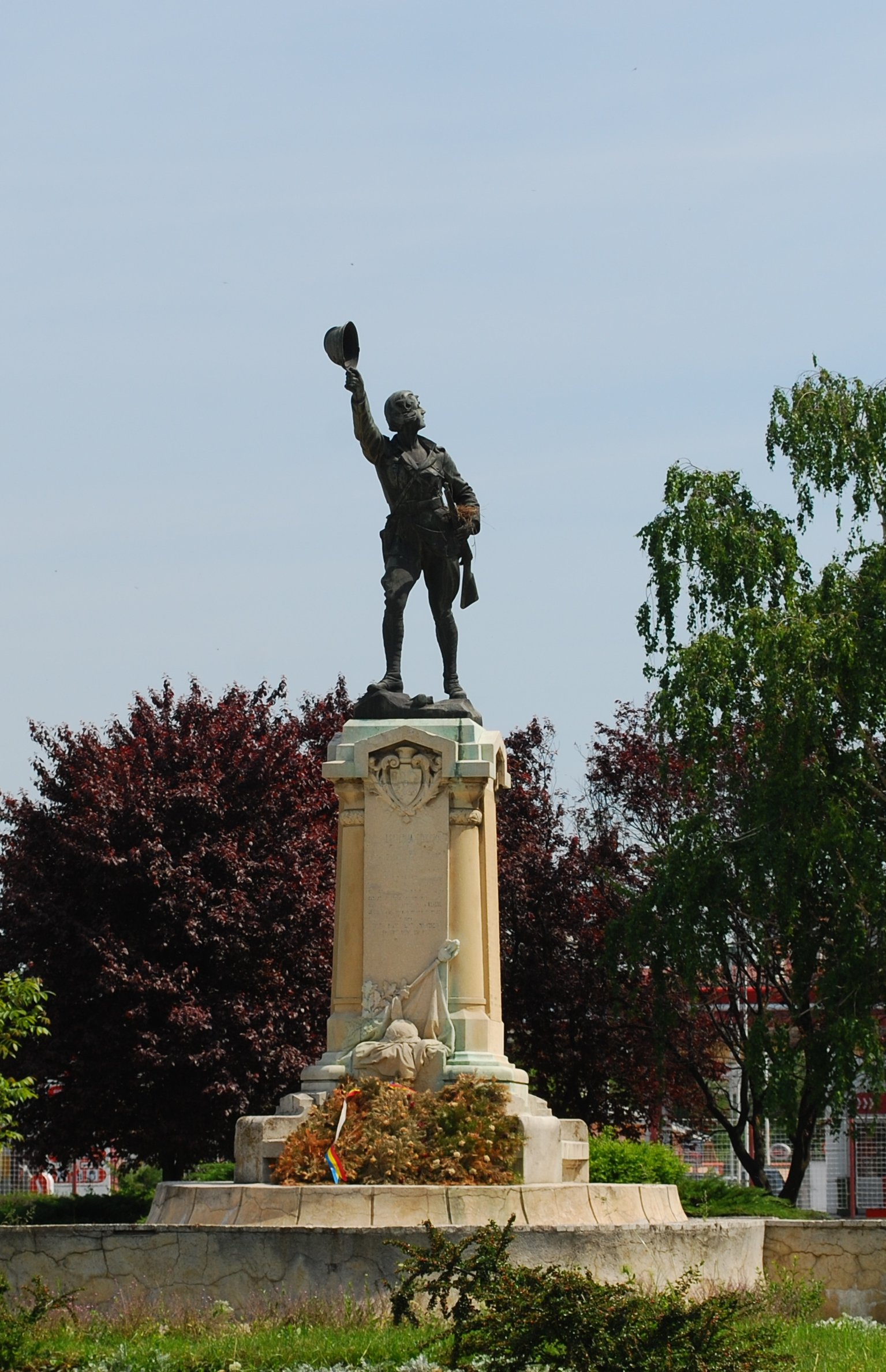 Monument in the memory of Ecaterina Teodoroiu in Slatina, RomaniaRomână: Statuia Ecaterinei Teodoroiu din Slatina, România - sculptor Dumitru Mățăoanu